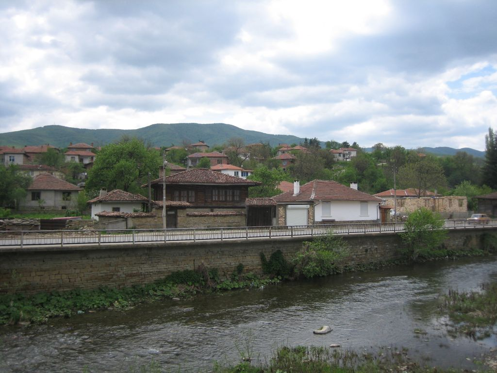 Gradets, Galata.